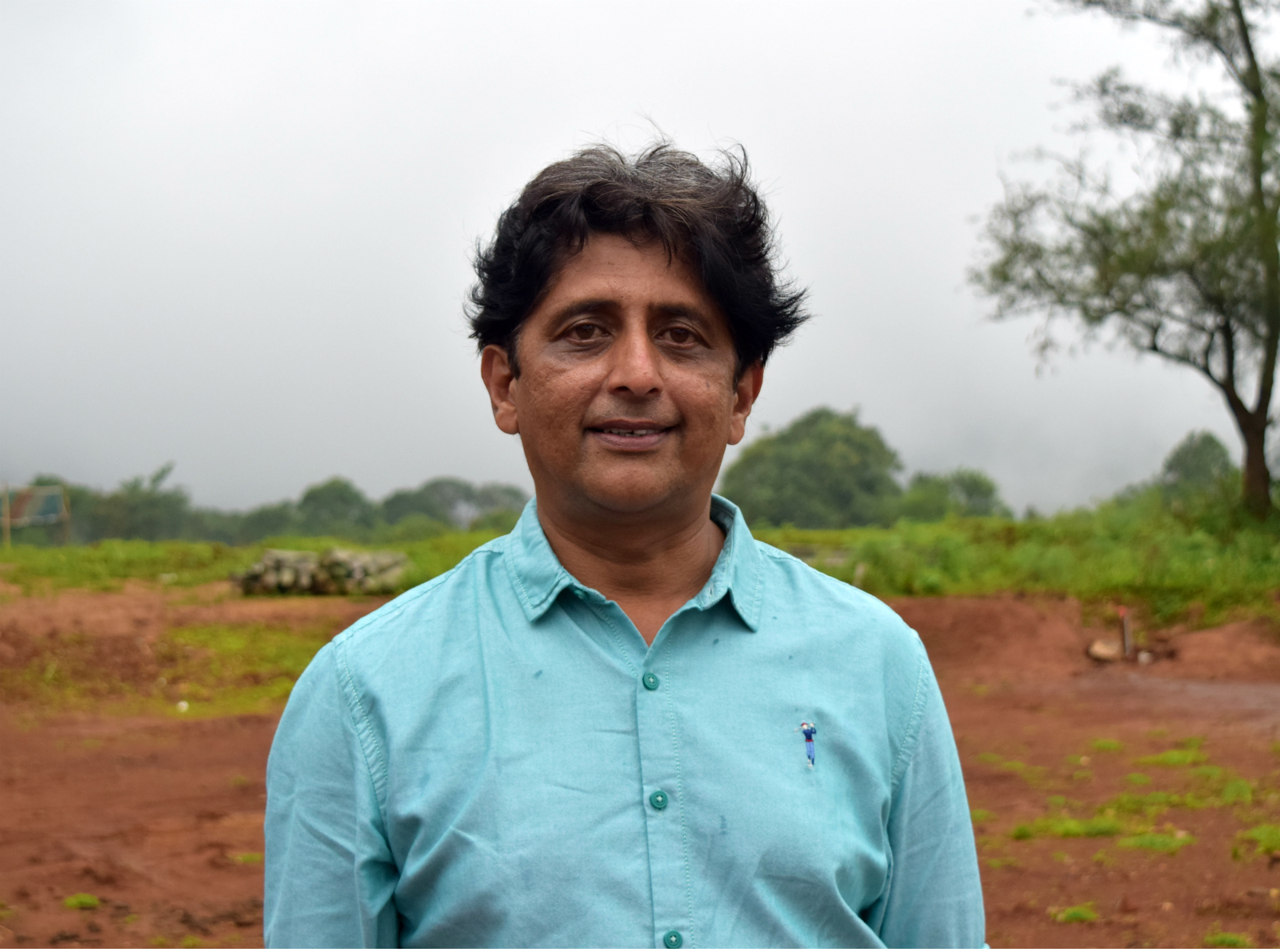 Pradeep Kenjige during the launch of website at KP Poornachandra Tejaswi Research center, Kottigehara, Mudigere, Chikkamgaluru